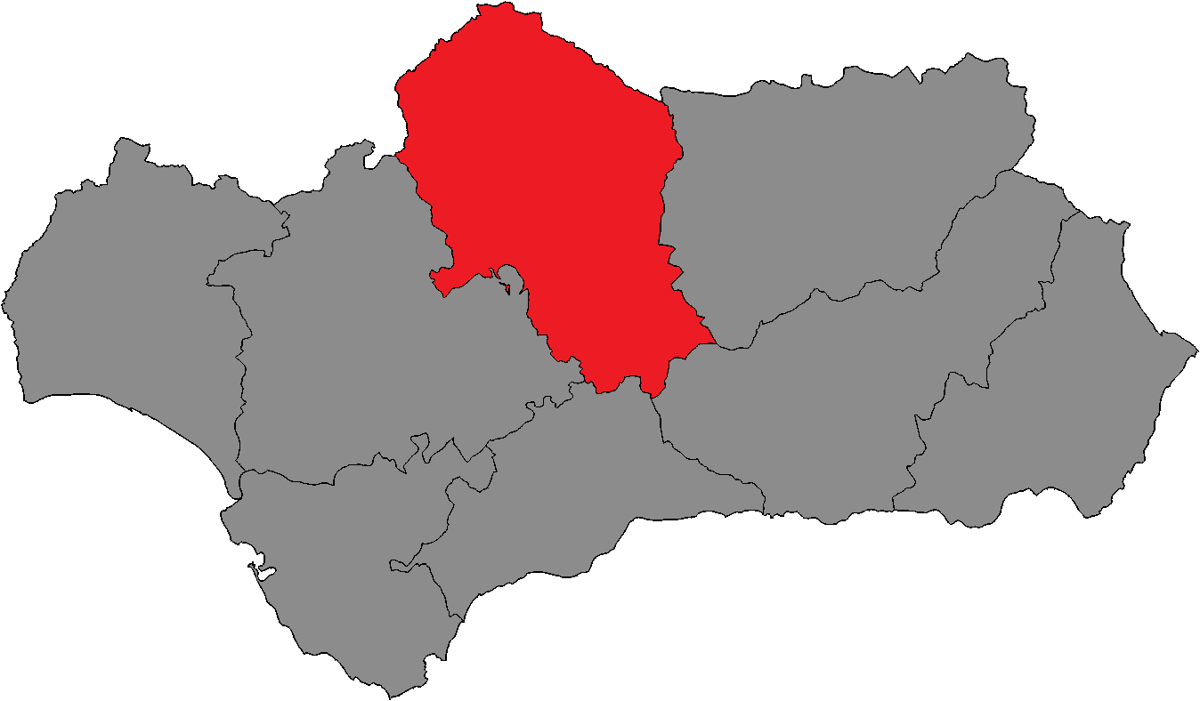 Andalusian Parliament district of Córdoba.